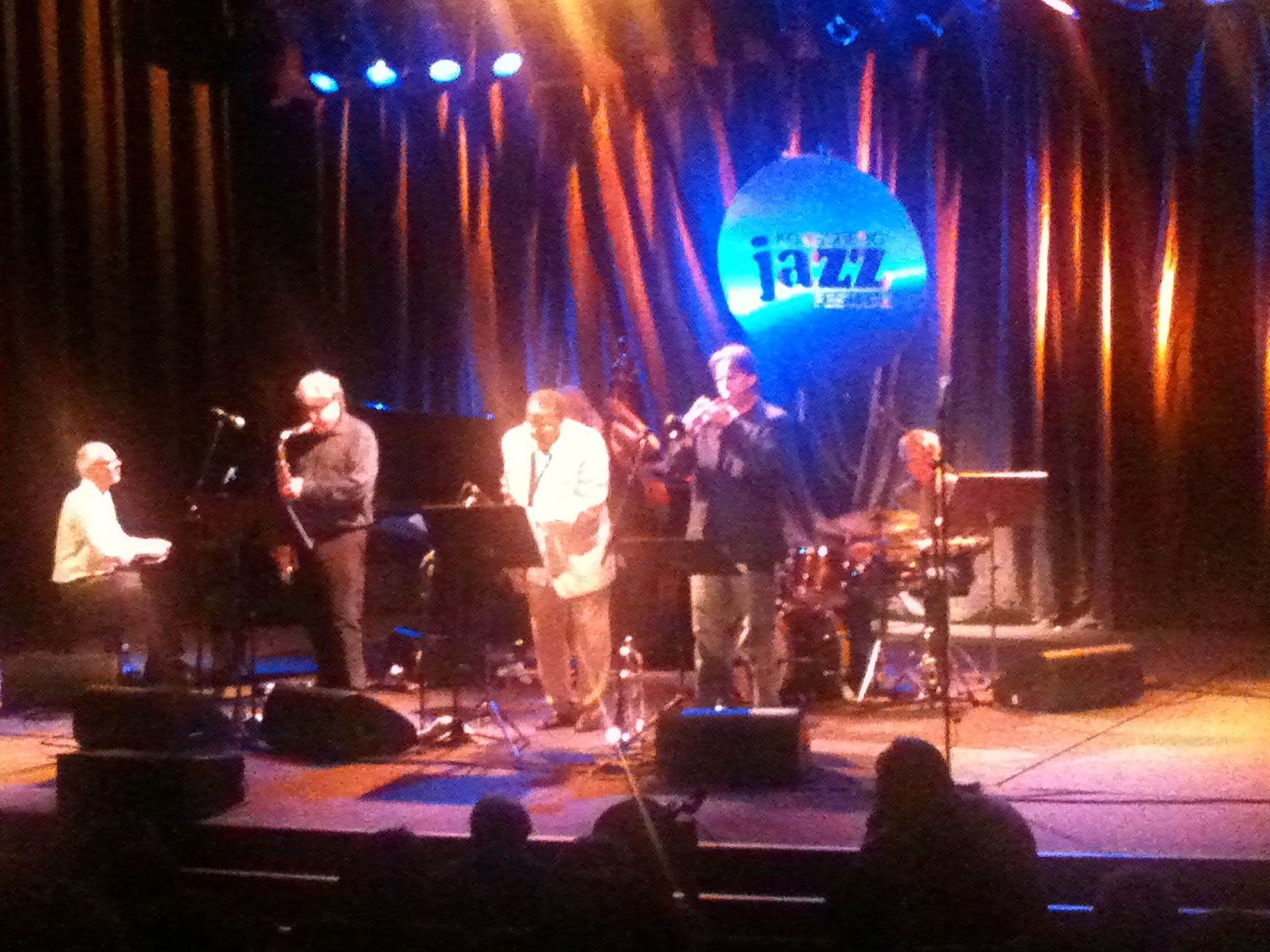 David Murray with Lonely Woman. Kongsberg Jazzfestival 2010. Photo: Thomas Bjørndahl